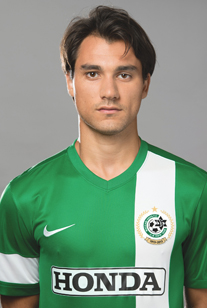 Shmuel Shaimann שמואל שיימן